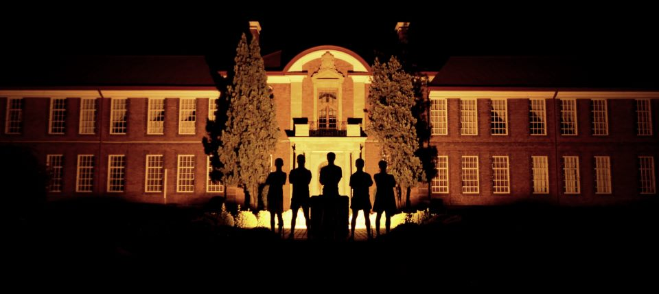 Night view of the frontage of Afrikaanse Hoër Seunskool (Afrikaans Boys' High School) in Pretoria. The school, also known as Affies, is a public high school for boys situated in Elandspoort 357-Jr, Pretoria, South Africa, just opposite Loftus Versfeld rugby stadium, home field of the Bulls and Blue Bulls. The school is well-known throughout South Africa for its high academic standards, sport achievements and production of leaders in a variety of fields and subjects, in South Africa and wider afield.